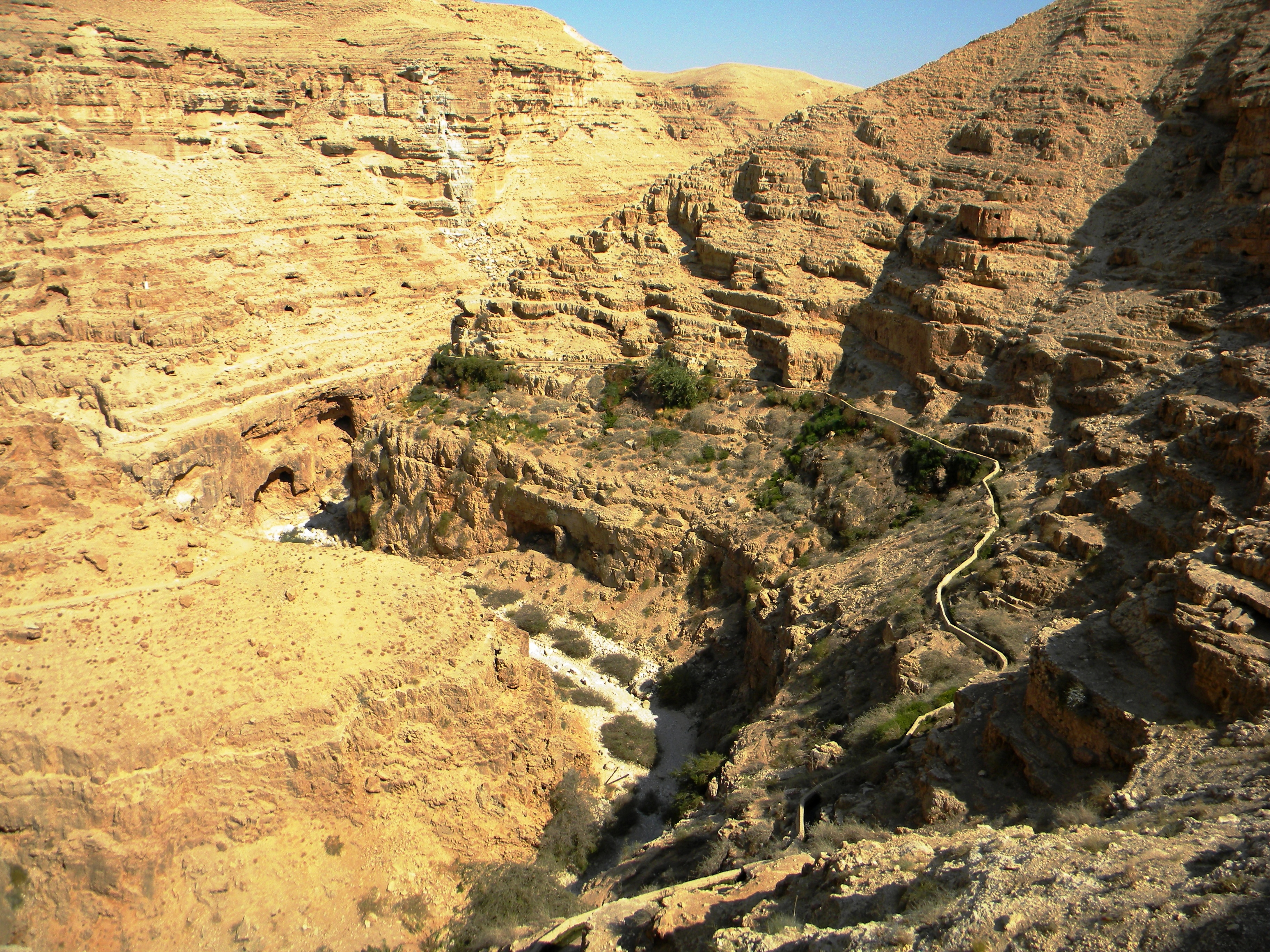 Palestine, Wadi Qelt, (Landscape 22)